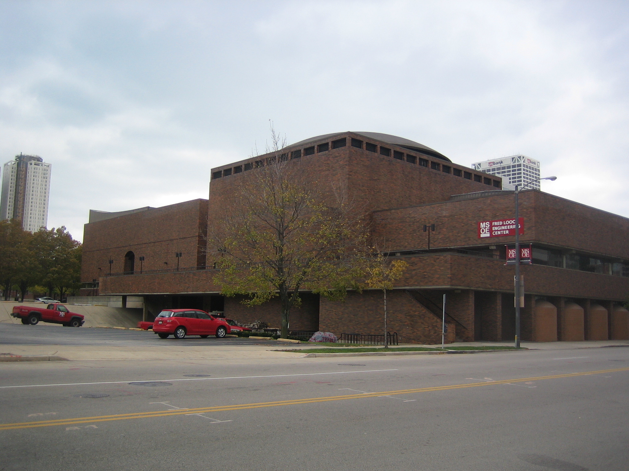 The Milwaukee School of Engineering Science building.